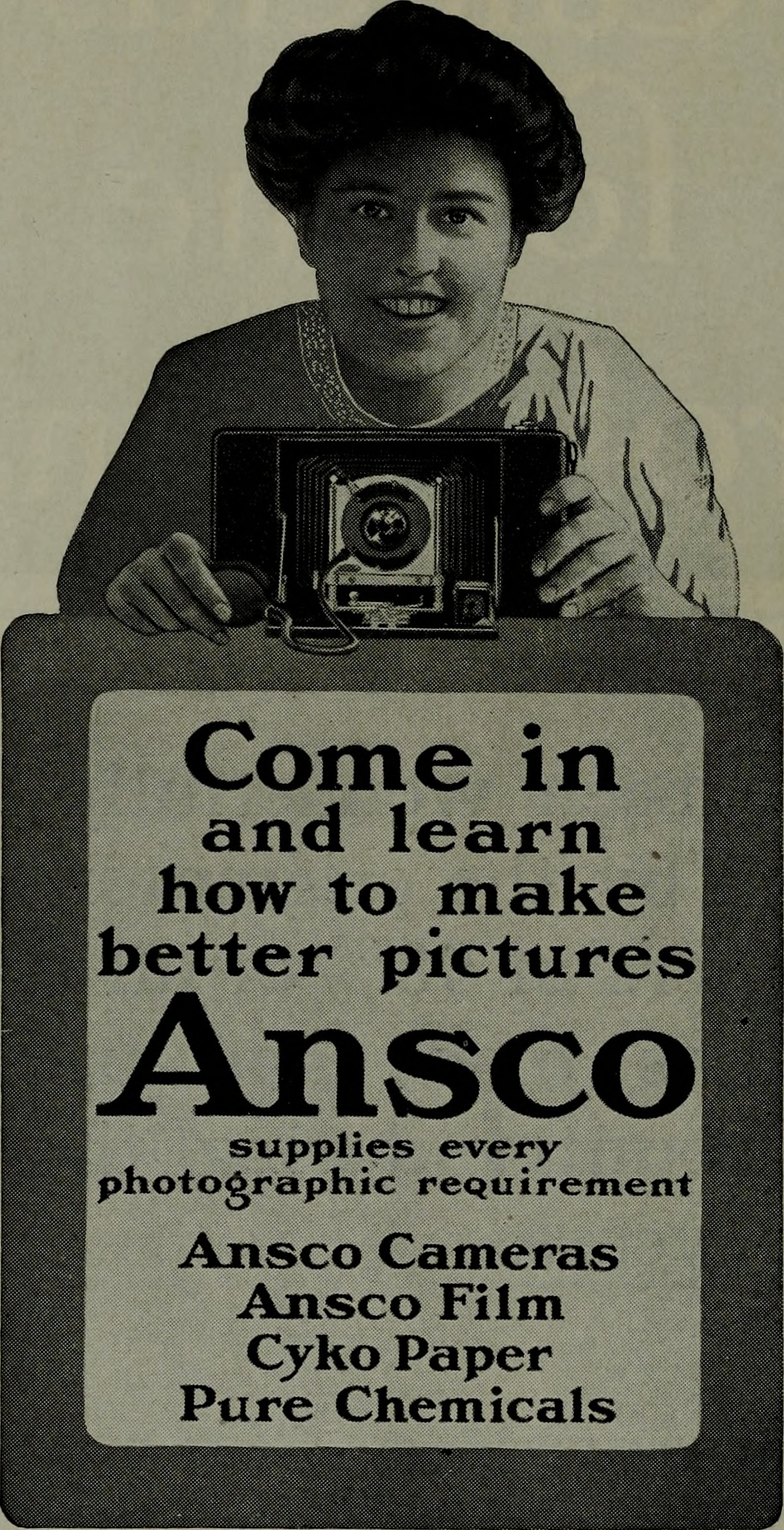 Title: The American annual of photography Year: 1912 (1910s) Authors: Subjects: Photography Publisher: New York : Tennant and Ward Text Appearing Before Image: ' Text Appearing After Image: If you have no time to get practical demonstration askhim for the two Ansco Books The Negative and ThePositive of Photography. Ansco Company Binghamton, N. Y. « THE LIBRARY BRIGHAM YOUNG UNIVERSITY PROVO. UTAH This is only the BackVievv^ of Ansco Camera Very important indeed as you will learn